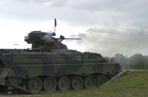 A Bundeswehr Marder from the 122nd Infantry, Company 5, fires a 20 mm automatic cannon; Grafenwöhr